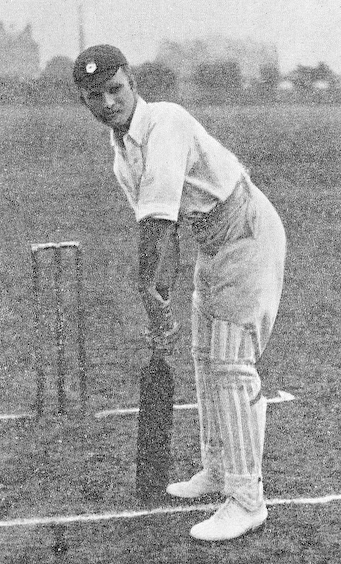 Scan of cricketer Francis Bacon